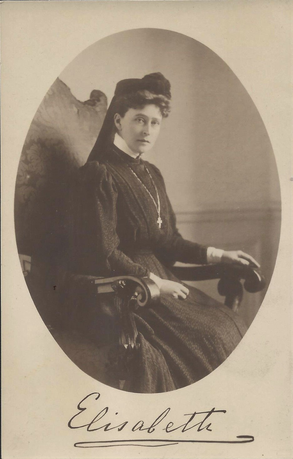 Grand Duchess Elisabeth of Russia (1864-1918)